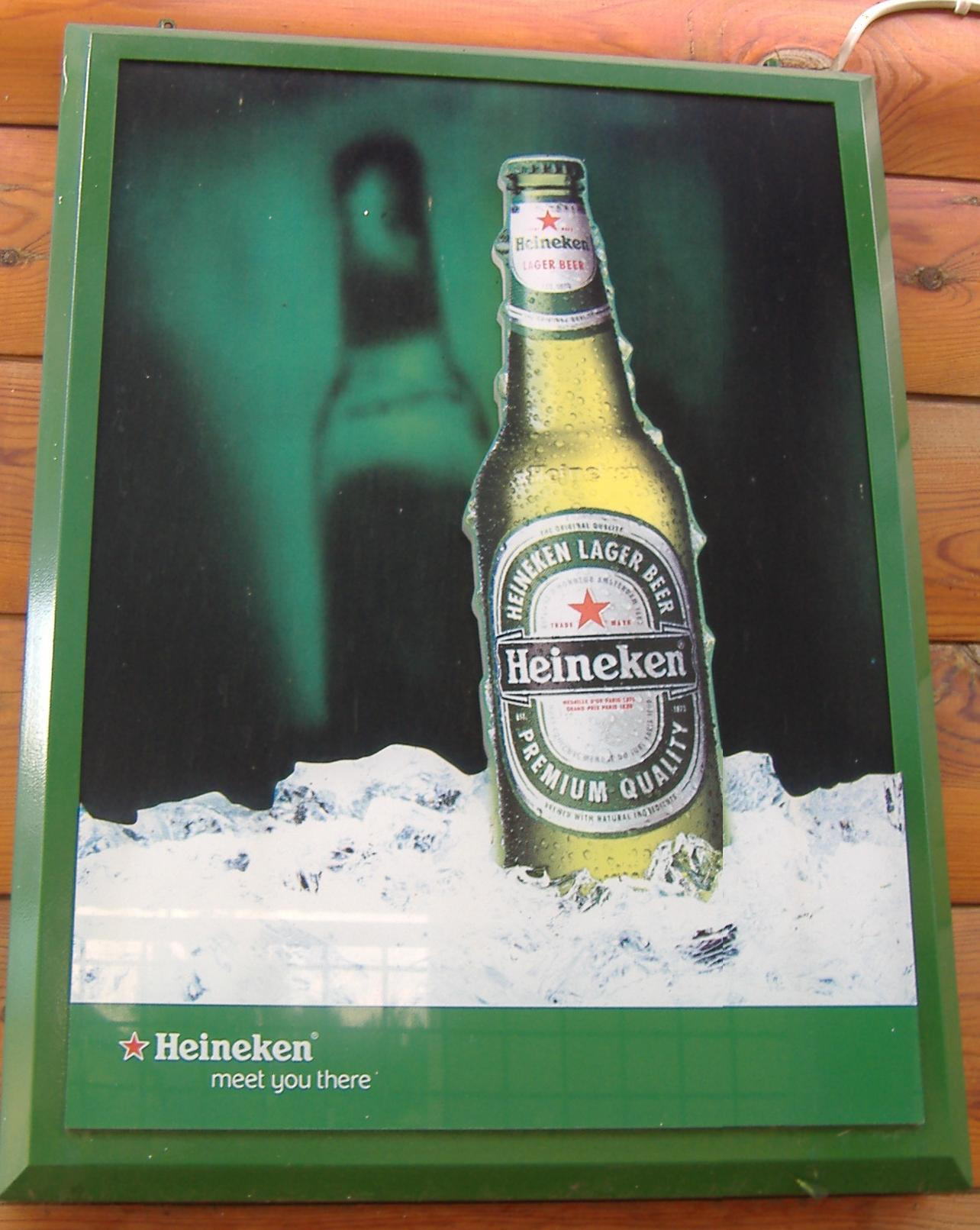 Heineken advertisement in Makó, Hungary.